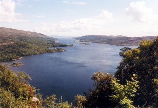 Loch Riddon, The Kyles of Bute and the Isle of Bute in the right distance. Eilean Dearg in the foreground